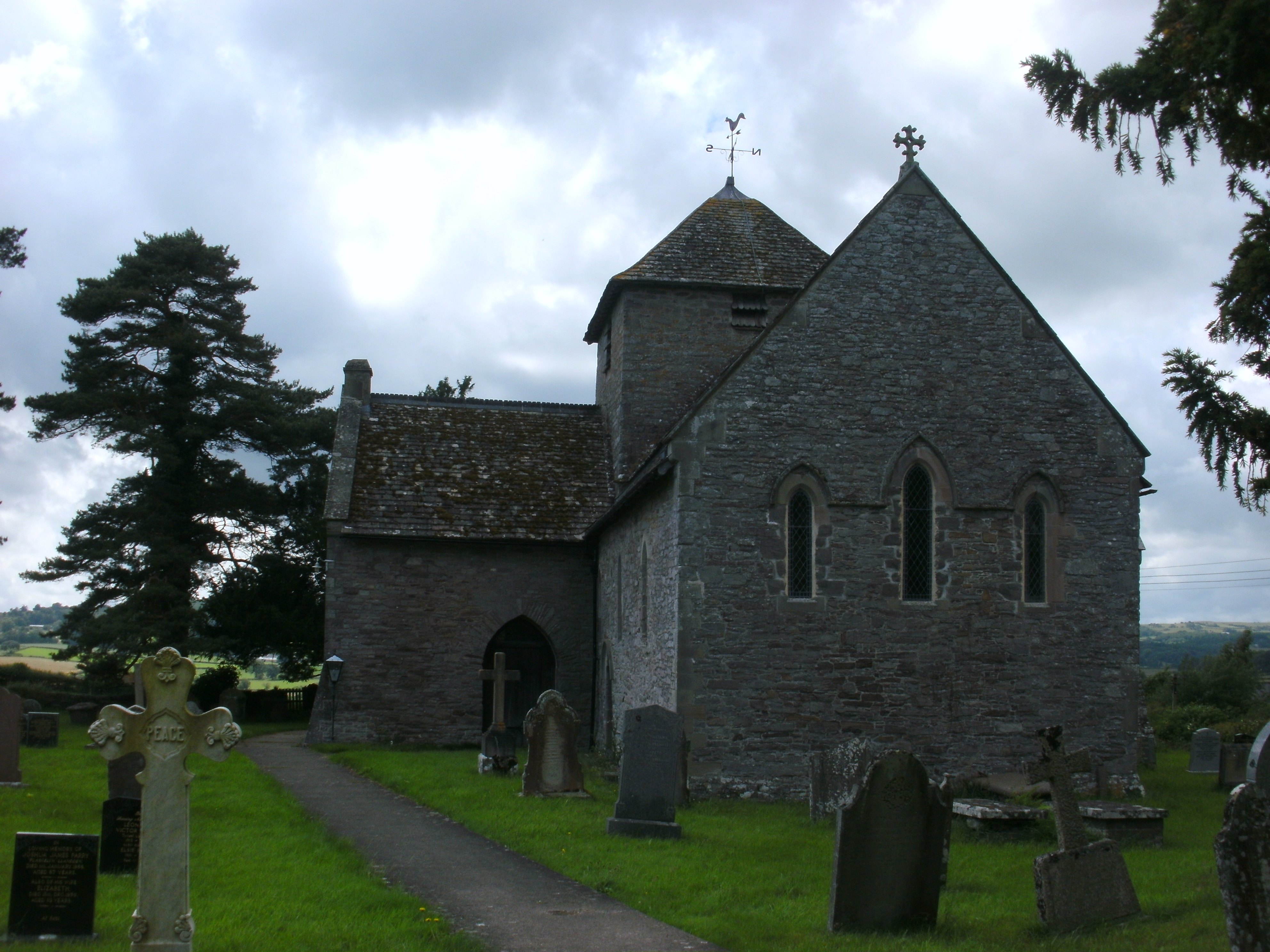 Churchyard and St David's Church, Llanddew